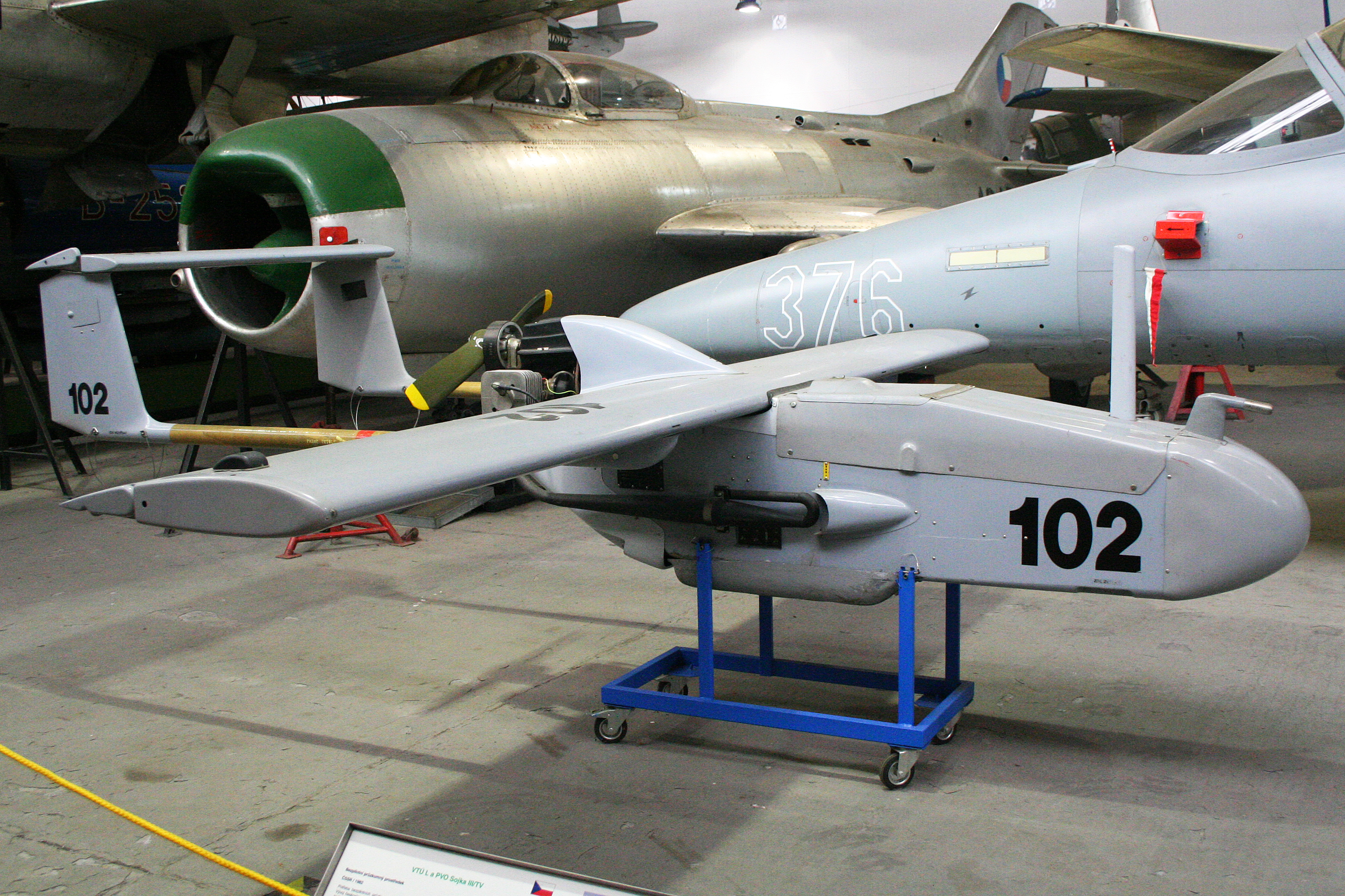 The type was retired from Czech Army service in December 2011. On display in the Post War Hangar, Kbely museum, Czech Republic. 07-10-2012